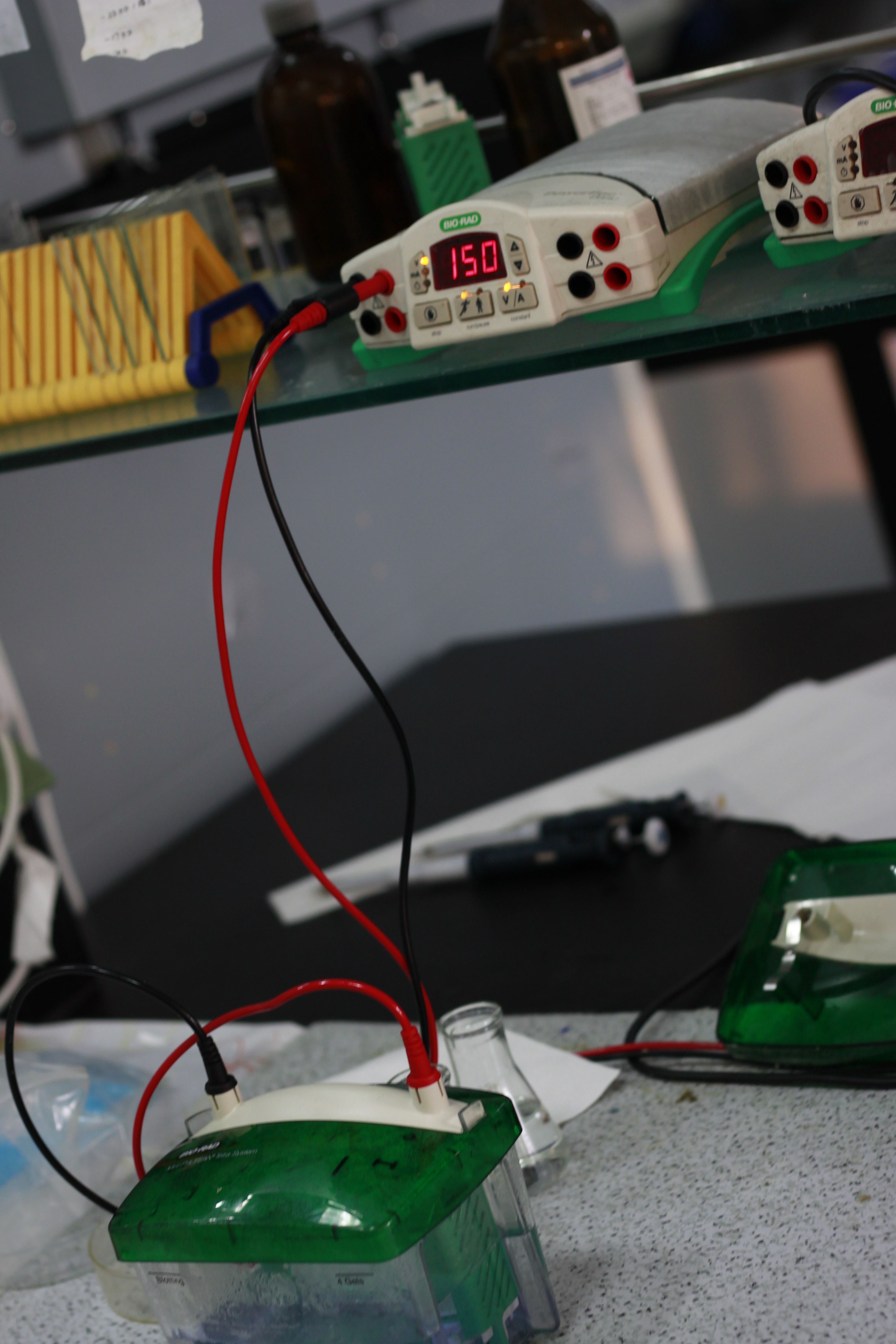 A set of protein electeophoresis equipment